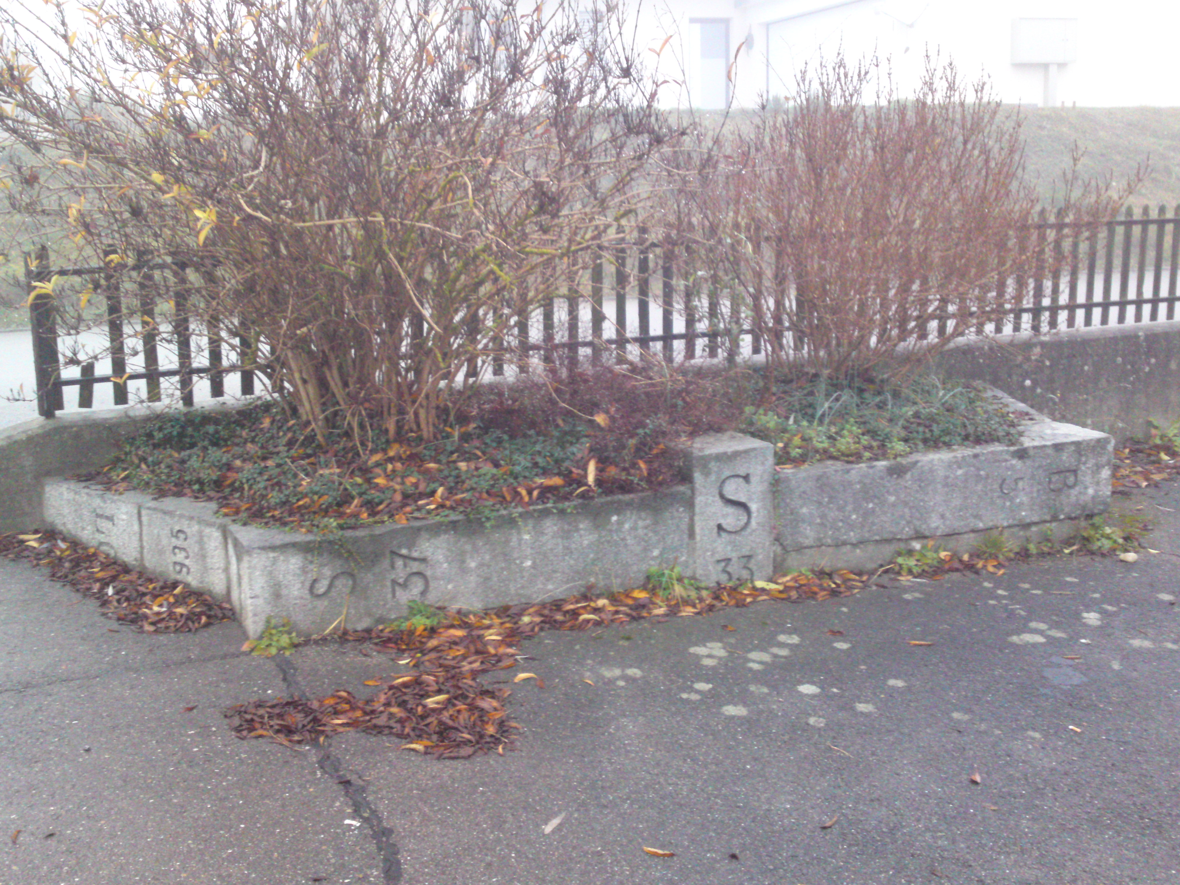 Decommissioned landmarks in Buettenhardt (Switzerland).